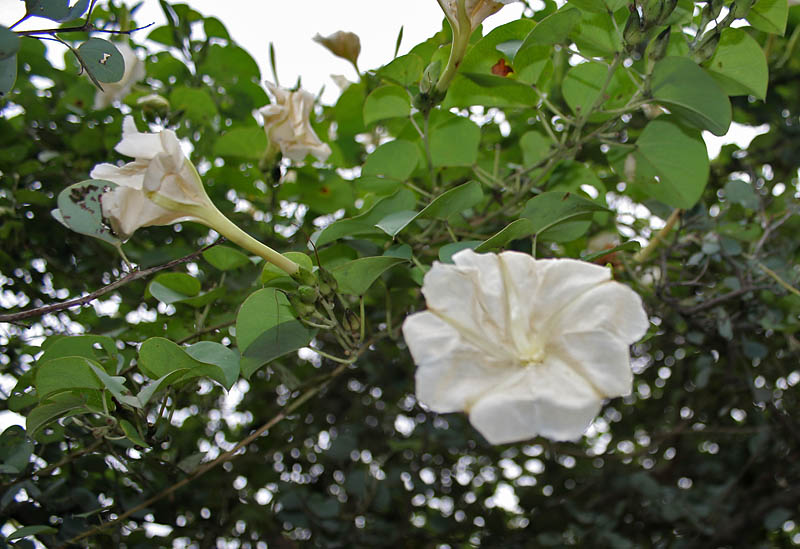 Common Night Glory Rivea hypocrateriformis in Hyderabad , India.